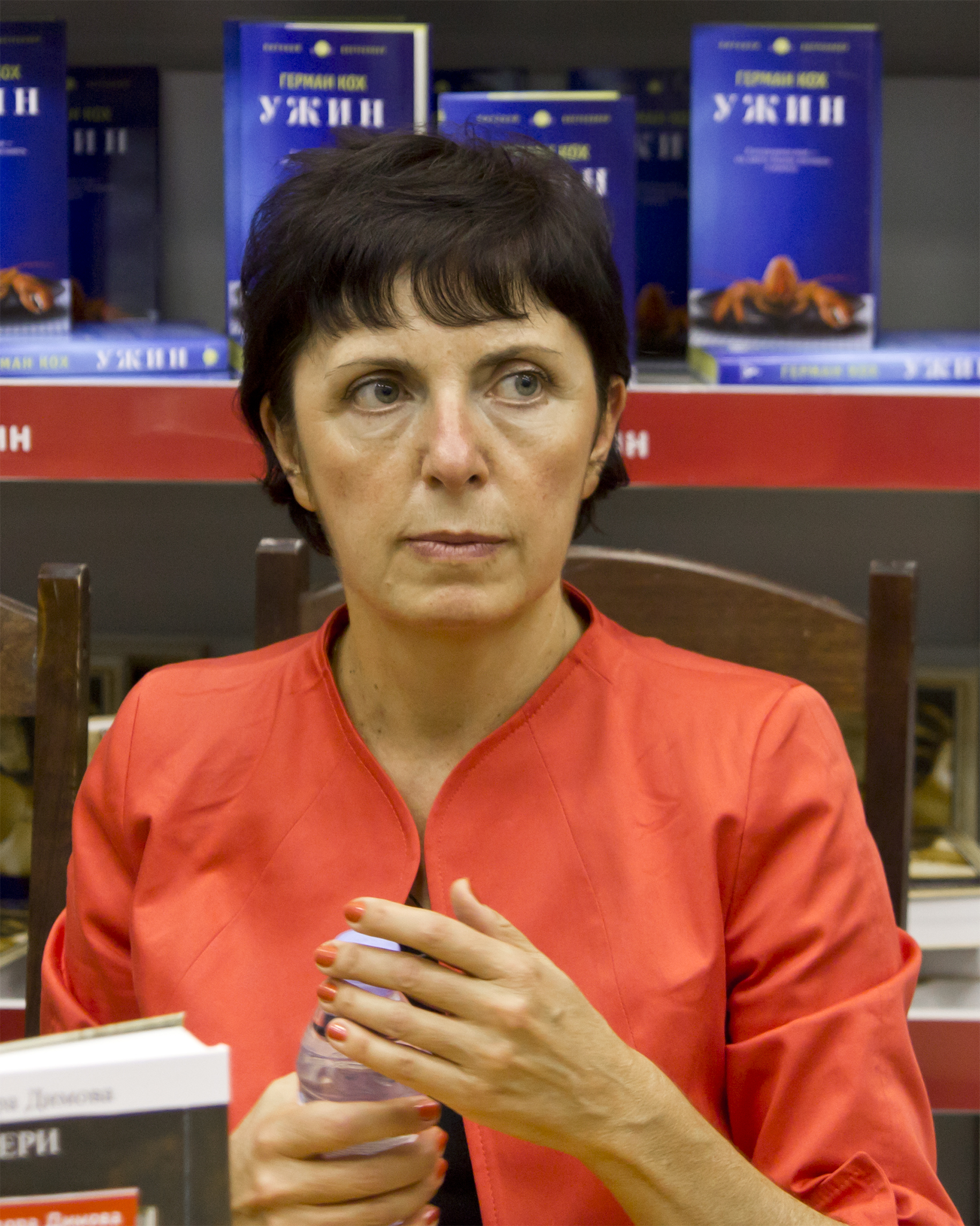 Theodora Dimova, Bulgarian writer. Taken in Moscow.